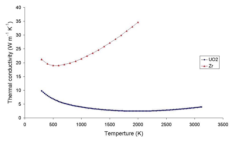 Graph of Be-7 deposited per month in Japan. The graph was drawn using data from a scientific paper. M. Yamamoto et al. Journal of Environmental Radioactivity, 2006, 86, 110-131